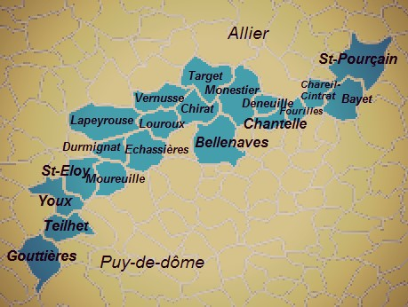 Bouble valley. Auvergne, France. La vallée de la Bouble en Auvergne.